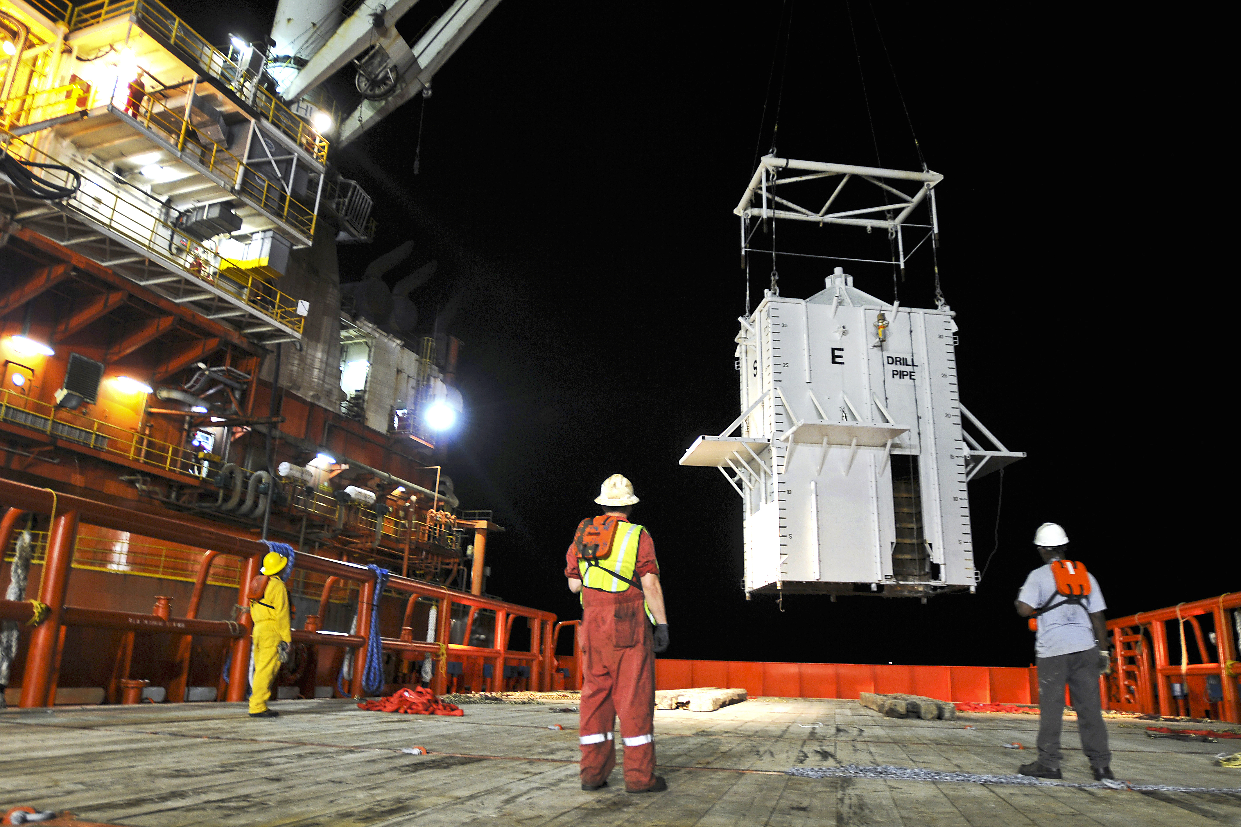 Crewmen aboard the motor vessel Joe Griffin look on as a mobile offshore drilling unit lowers a pollution containment chamber in the Gulf of Mexico, May 6, 2010. The chamber was designed to cap the oil discharge from the Deepwater Horizon incident.